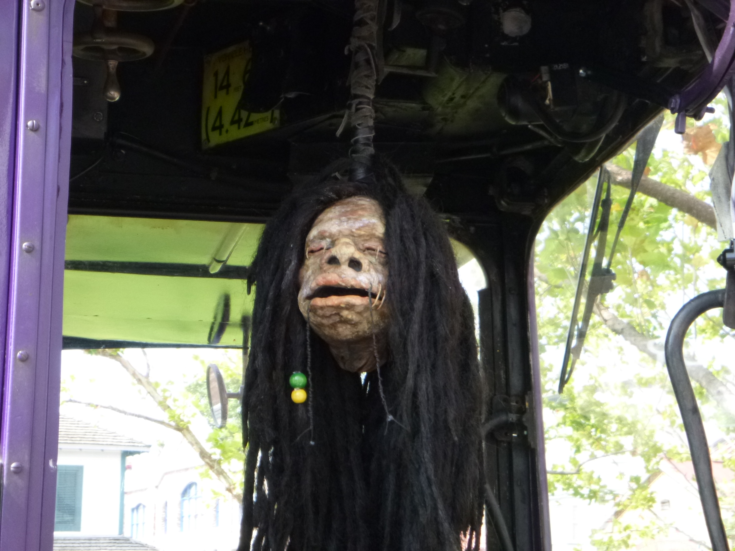 Shrunken head in the The Knight Bus at London, Universal Studios Florida